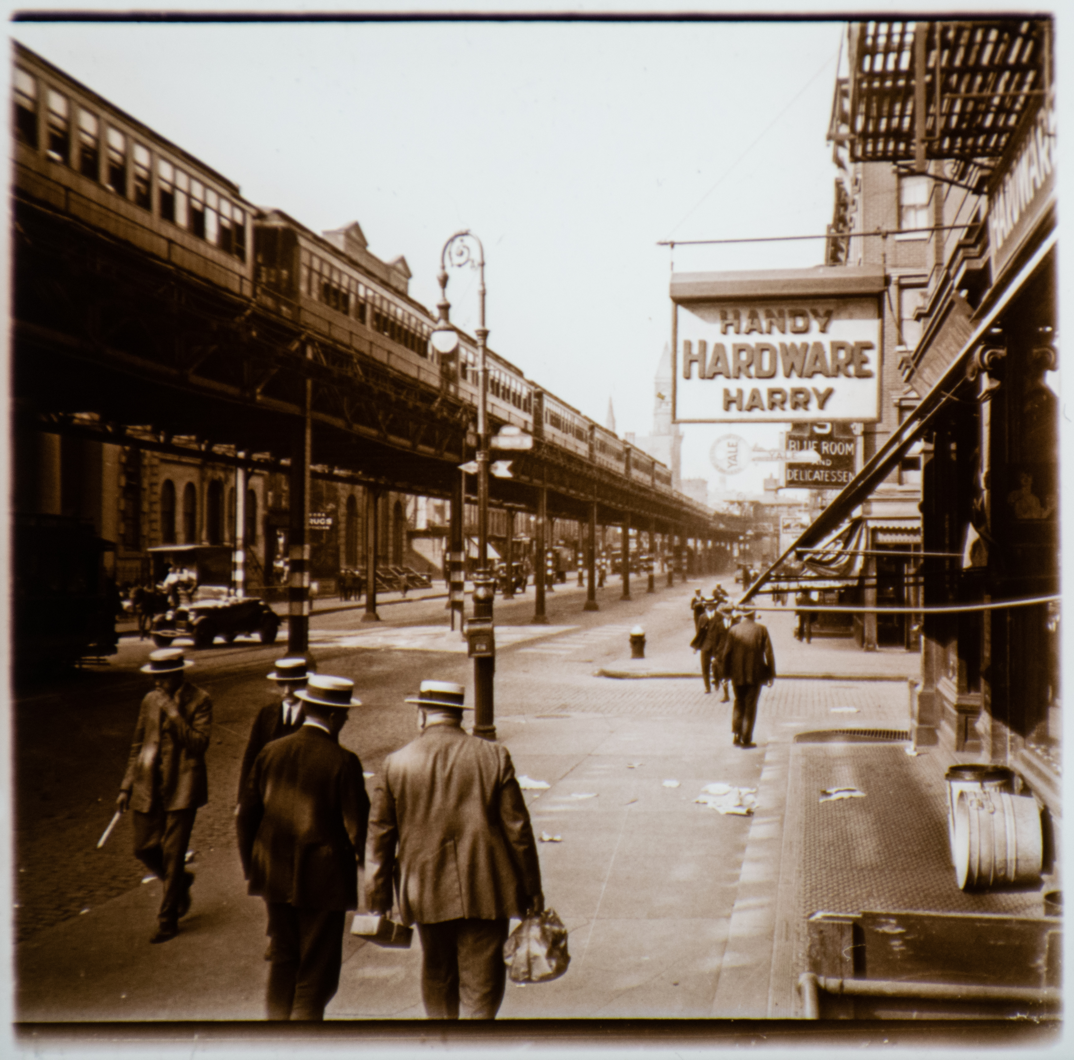 This image is half of a stereoscope image of a New York City street scene. The image is printed on a glass plate. It shows a northern view of the IRT Sixth Avenue Line from the corner of Waverly Place, one block south of the 8th Street Station. The station platform can be seen in the background, as well as the tower of the Jefferson Market Courthouse. The courthouse is now the Jefferson Market Library.